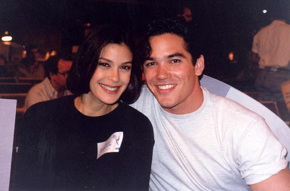 Teri Hatcher and Dean Cain at the 45th Emmy Awardsterihatcher_deancain-1